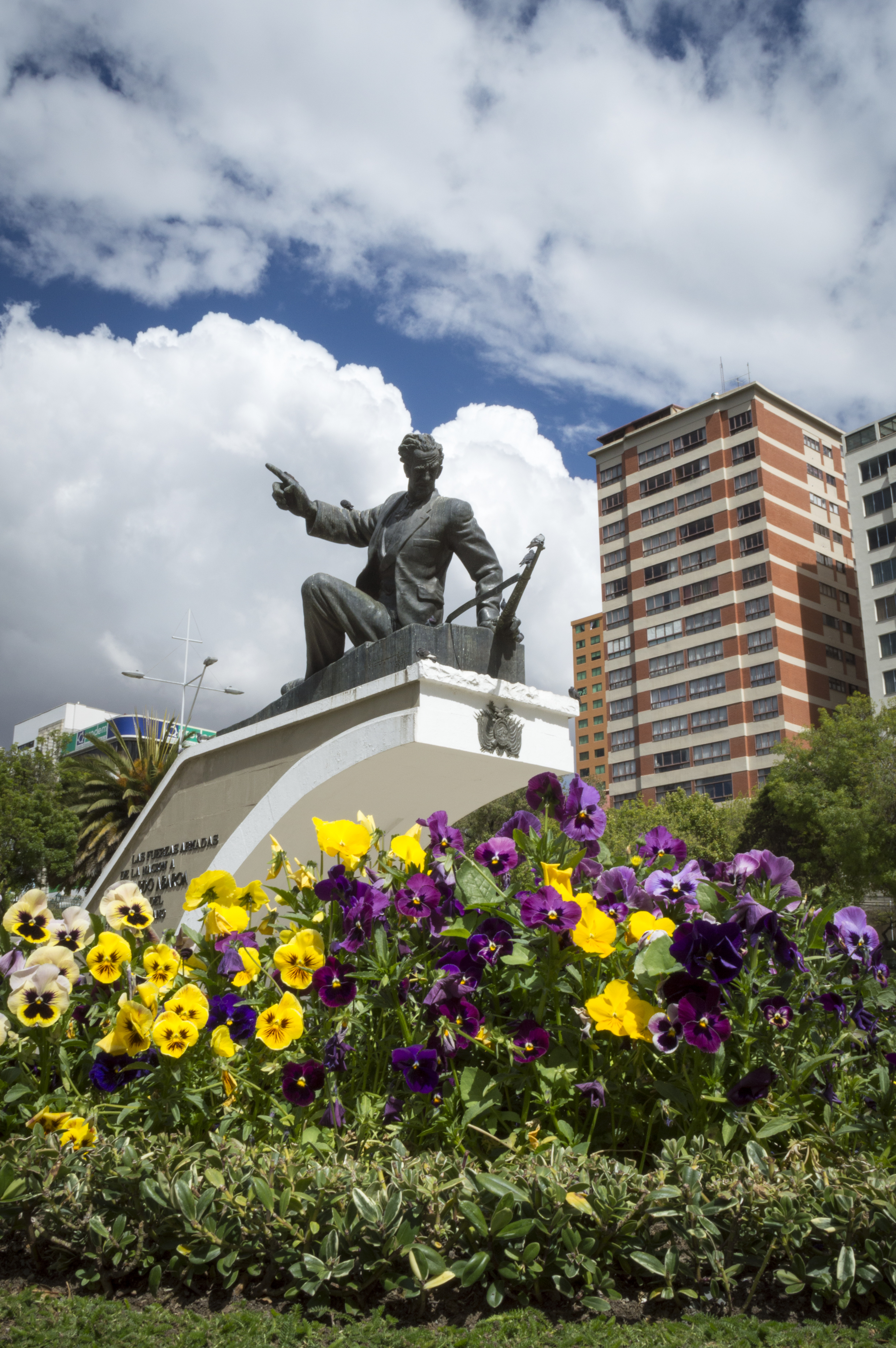 Monument to Eduardo Abaroa, La Paz, Bolivia.